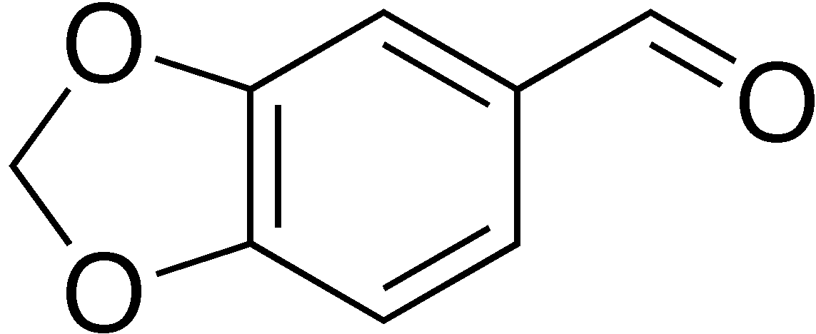 chemical structure of piperonal